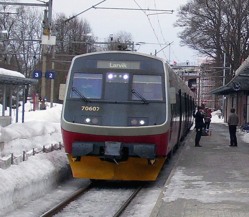 70607 at Tønsberg railwaystation in Norway.